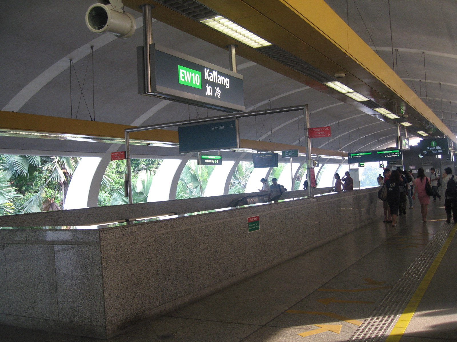 Kallang MRT Station.